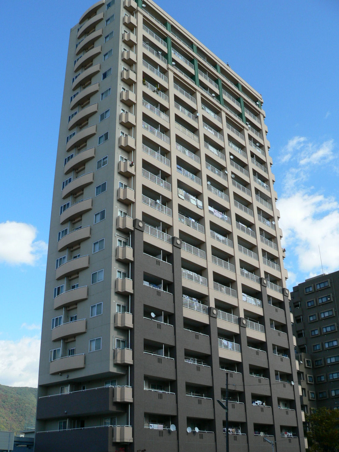 セインツタワー